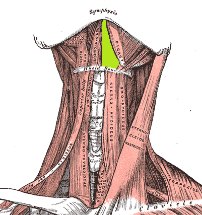 Edit of Gray386.png cropped and highlighted left submental space in green